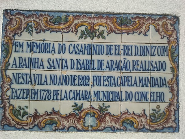 Painel de azulejos evocativa do casamento de D. Dinis com D. Isabel na parede sul da Capela de São Bartolomeu (Trancoso)